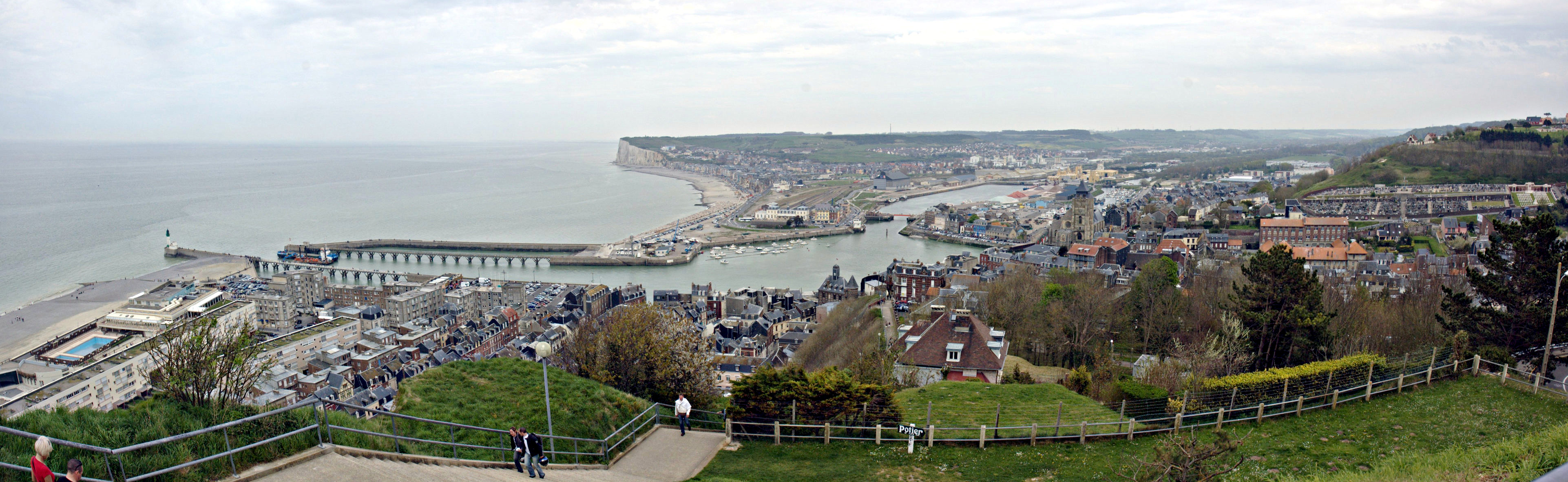 Panorama of the French town of Le Treport.